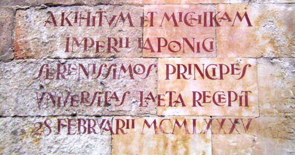 A Recent Latin inscription at Salamanca University commemorating the visit of then-Prince Akihito and Princess Michiko to the university. The text is: AKIHITVM ET MICHIKAM IMPERII IAPONICI SERENISSIMOS PRINCIPES VNIVERSITAS LAETA RECEPIT 28 FEBRVARII MCMLXXXV (The university joyfully received Akihito and Michiko, the Most Serene Prince and Princess of the Japanese Empire, on 28 February 1985.) Personal snapshot taken in July 2002.